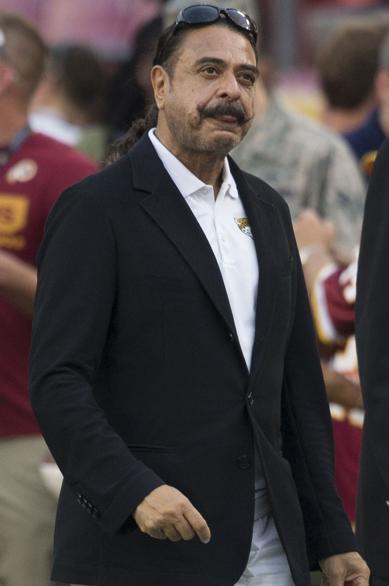 Jaguars at Redskins 9/3/15